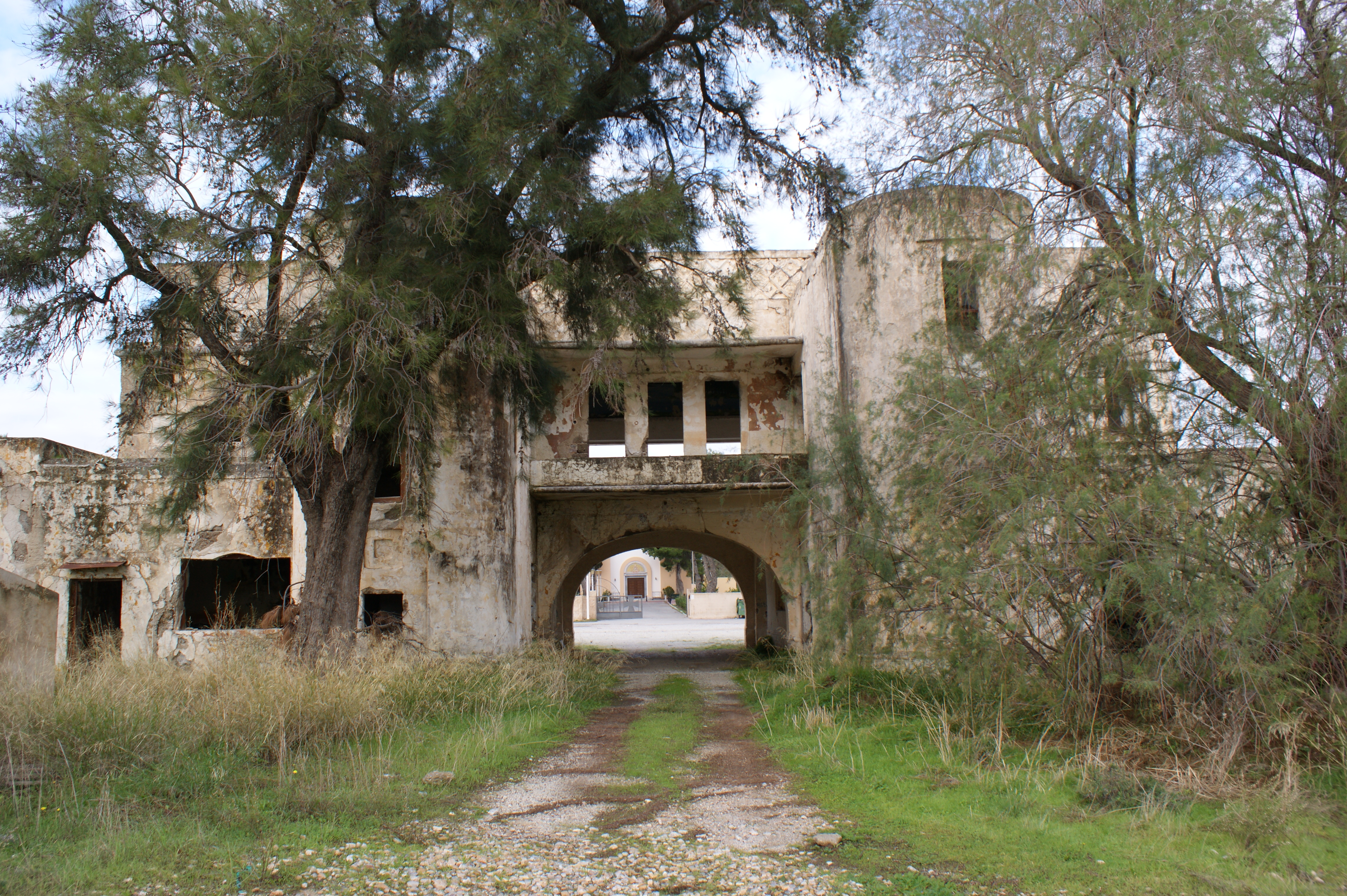 Historic administrative center of the Italian occupying power from 1936 to 1943 in Linopotis on the Greek island of Kos. In the background the church of Agios Pavlos (Αγίος Παυλος).